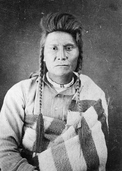 Chief Joseph, photographed by John H. Fouch at Tongue River Cantonment shortly after the arrival of the Nez Perce prisoners on October 23; three weeks after the Battle of Bear Paw.Fouch, John Hale (1877). NAA.PhotoLot.R92-39. Smithsonian Institution. National Anthropological Archives. Retrieved on 2019-12-14.